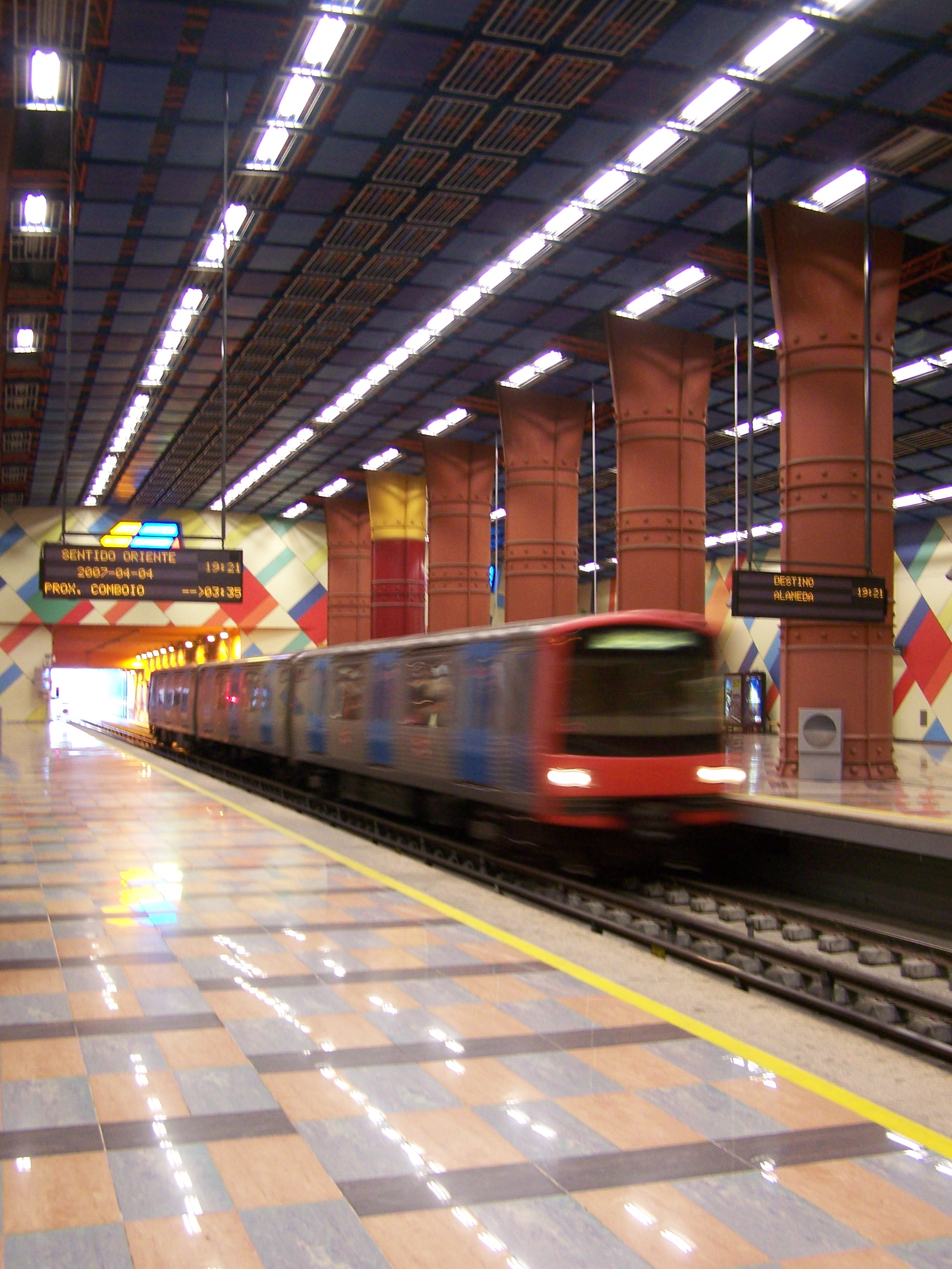 Train at Olaias metro station in Lisbon, Portugal